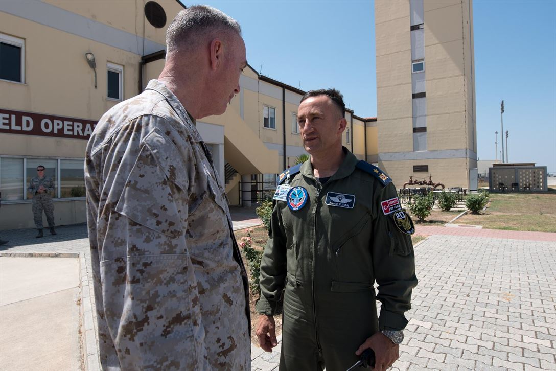 Marine Corps Gen. Joe Dunford, left, chairman of the Joint Chiefs of Staff, speaks with Turkish Air Force Brig. Gen. Kemal Turan before departing Incirlik Air Base, Turkey, Aug. 2, 2016.